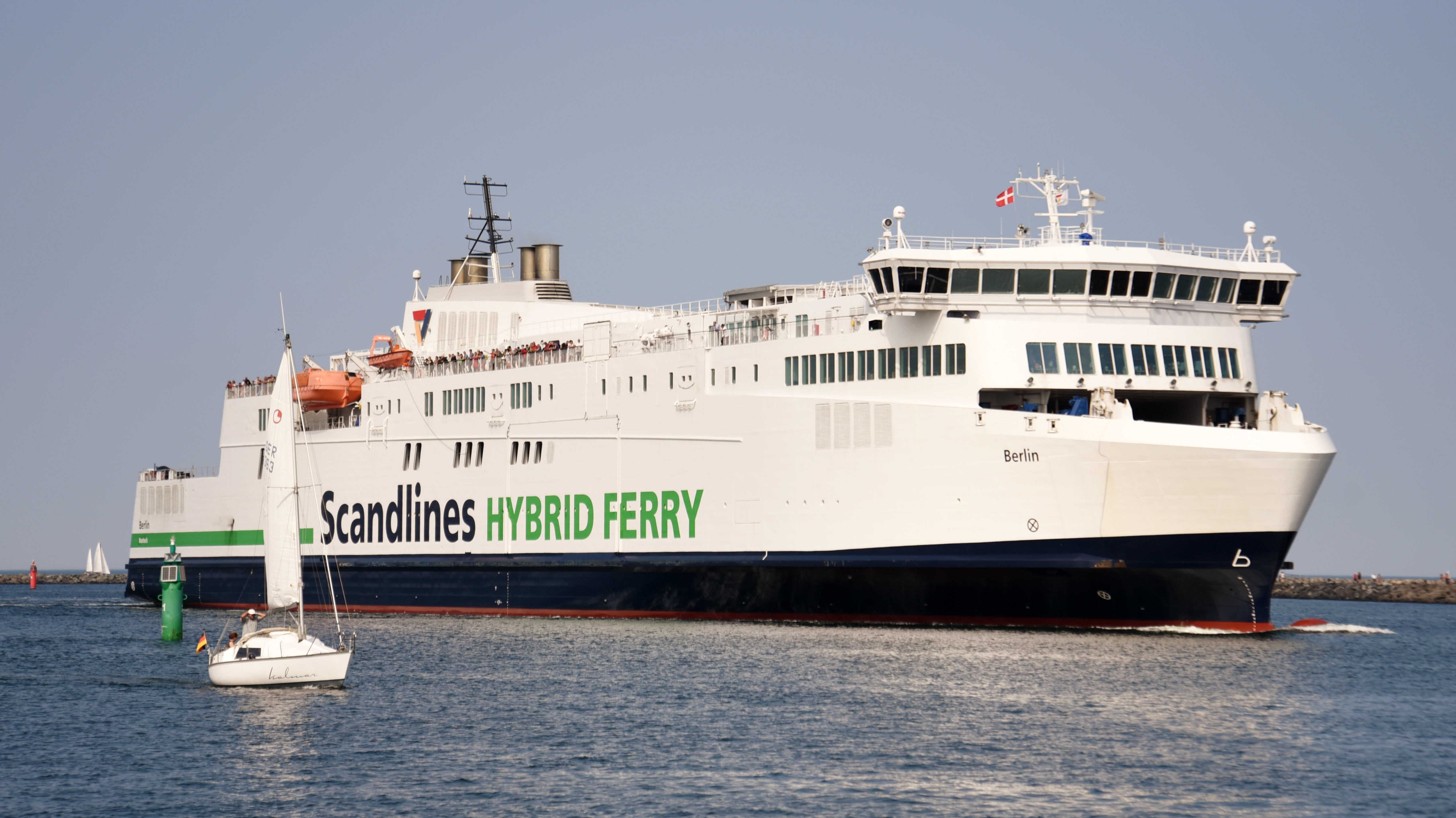 The Scandlines ferry Berlin passing through Warnemünde on arrival at Rostock, Germany, from Gedser, Denmark